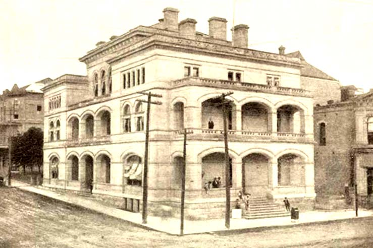 Austin, Texas U.S. Court House and Post Office (1901) Completed in 1881. Architect: Abner Cook The U.S. District Court for the Western District of Texas met here until 1936; the U.S. Circuit Court for the Western District of Texas met here until that court was abolished in 1912. Now owned by the University of Texas and renamed O. Henry Hall.